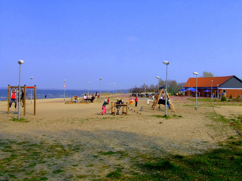 Beach & Promenade, Trzebiez, Poland